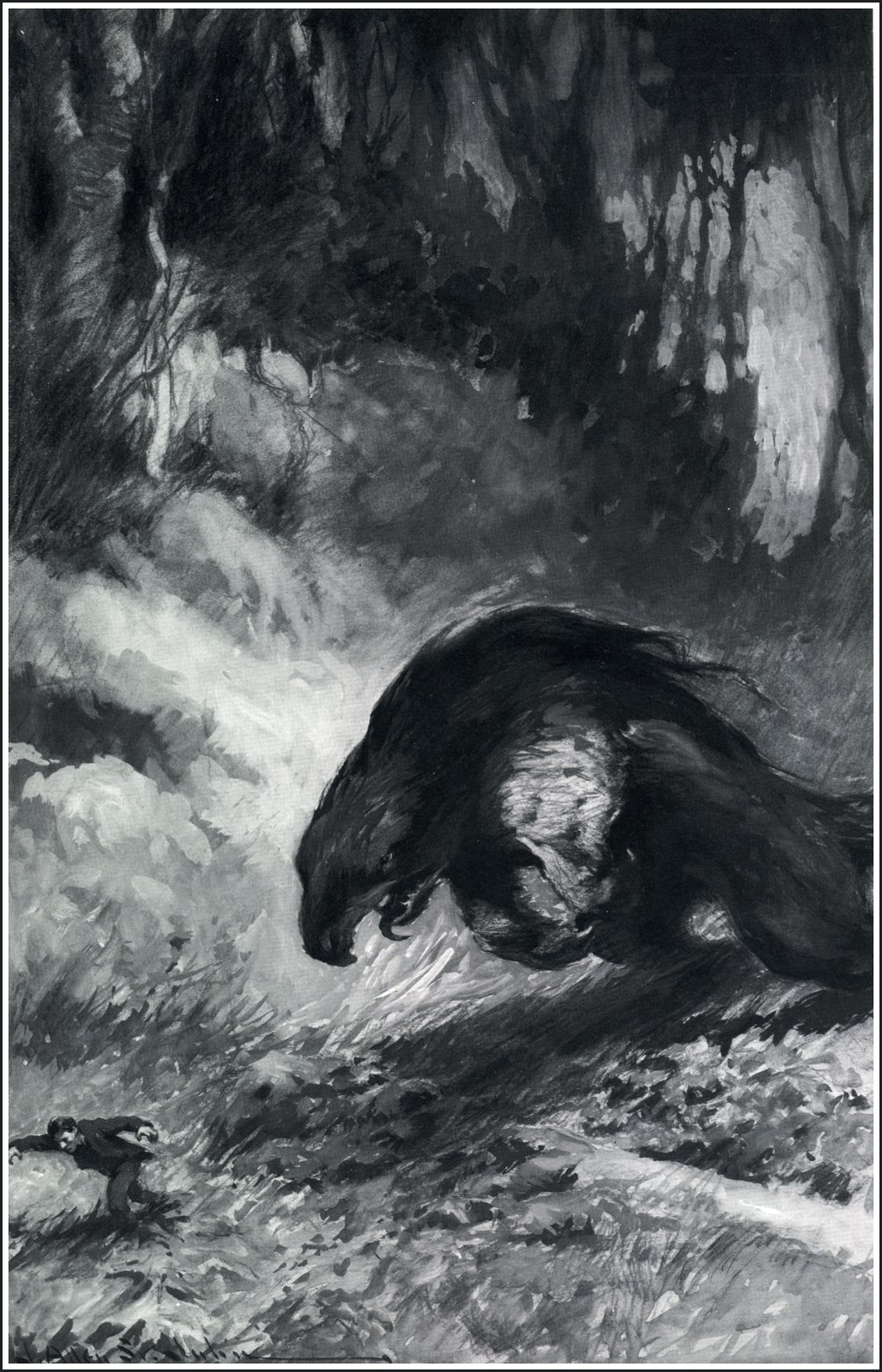 Illustration of a "dyryth" (megatherium) from At the Earth's Core (1922)